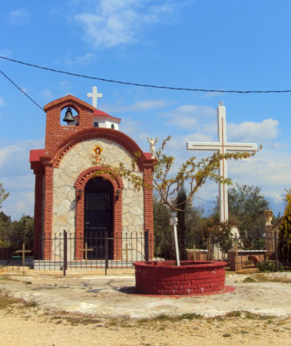 Christian Orthdodox chapel dedidated to the Transfiguration of Jesus in Avgereika village, Achaia, Greece.